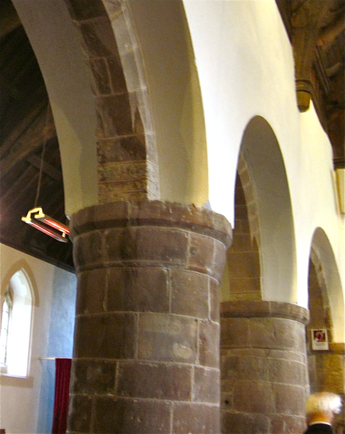 Kerry Church, Montgomeryshire